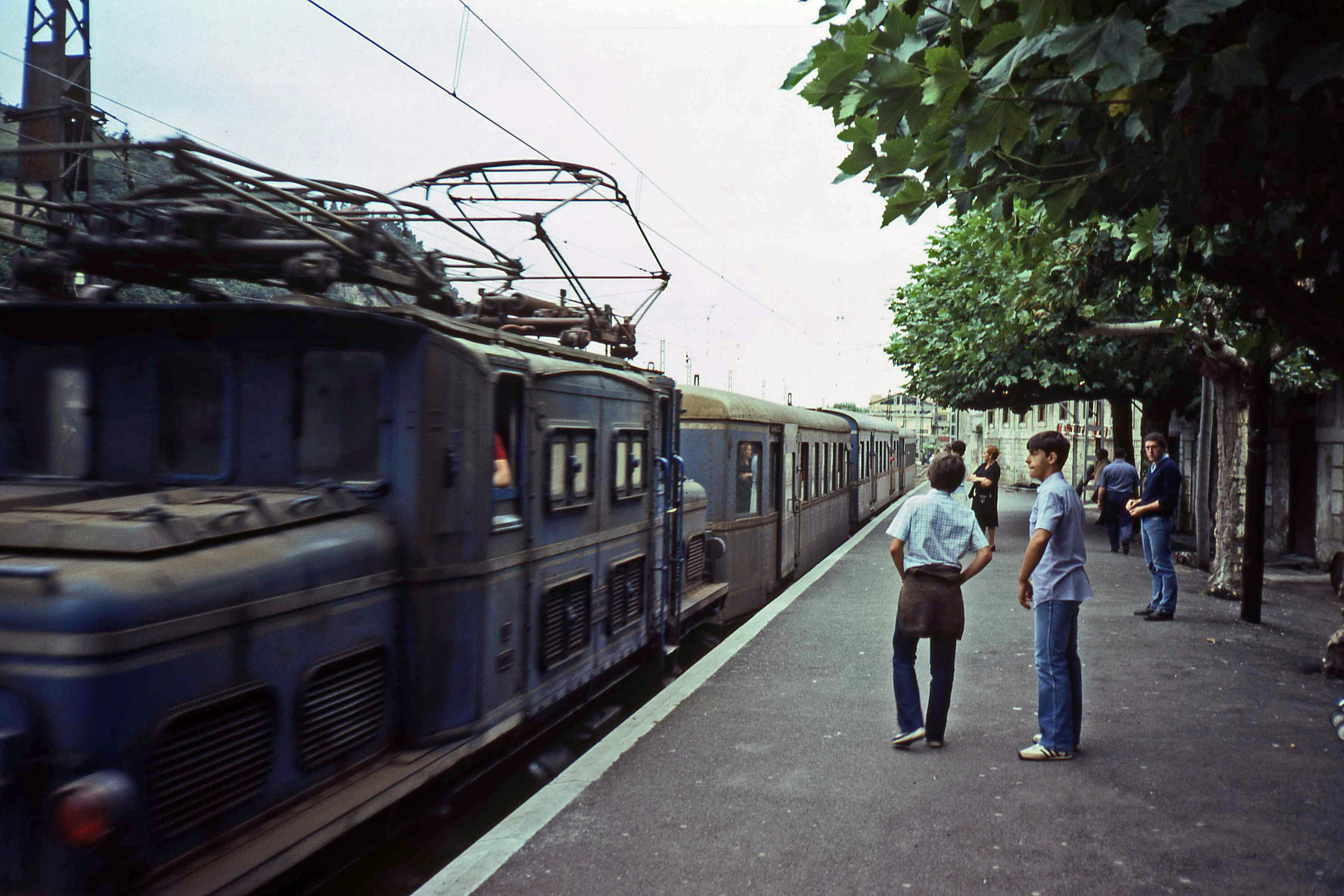 Small track FEVE train stopping at Deba station on the Basque coastline.